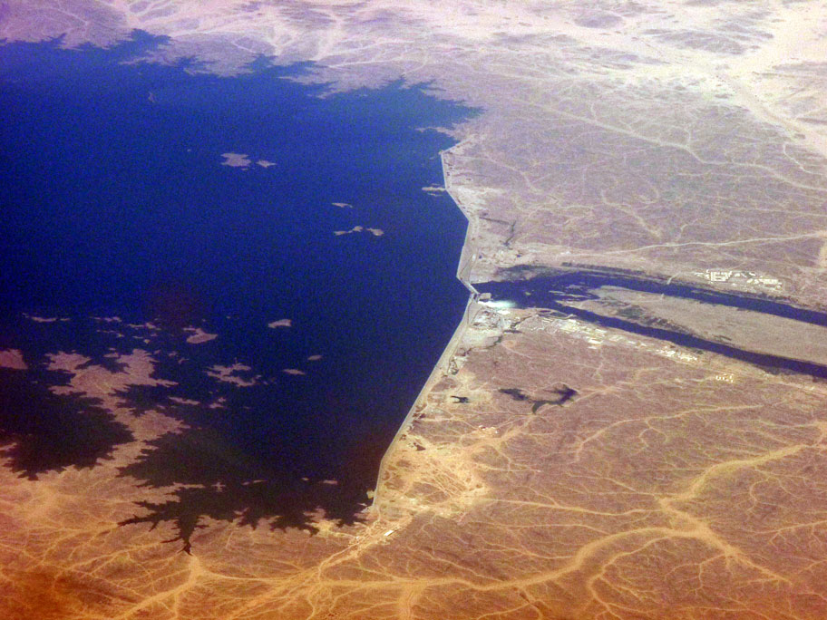 The Merowe Dam on the Nile in Dar al-Manasir, Nubia - northern Sudan.